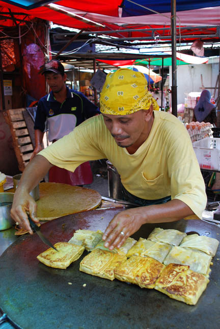 This man was making murtabak (chicken or other meat) - a type of pancake filled with eggs, small chunks of meat and onions. A spicy and tasty food!